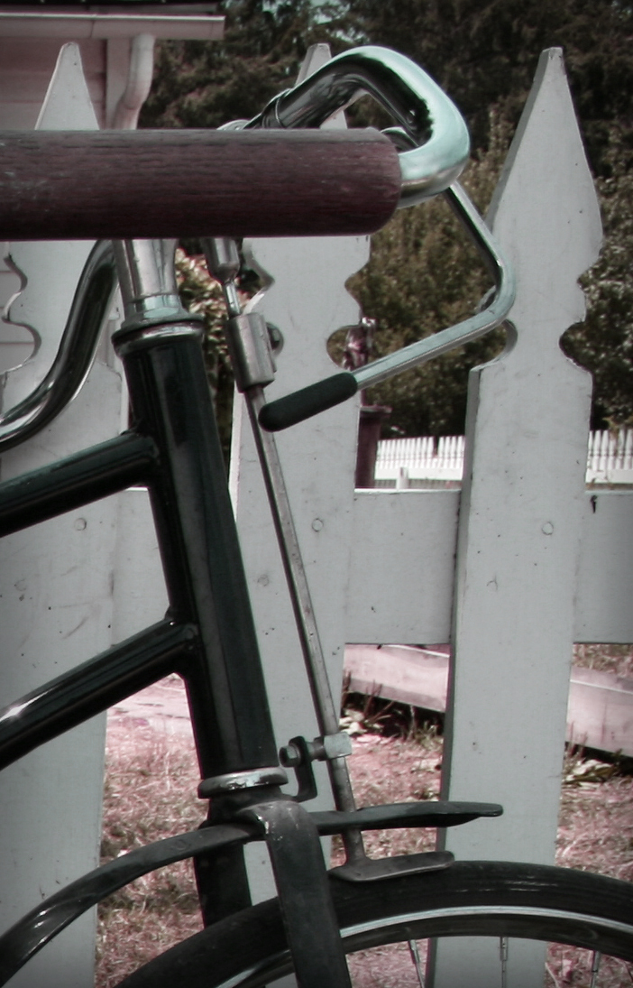 Detail of File:Antique 1.jpg previously uploaded